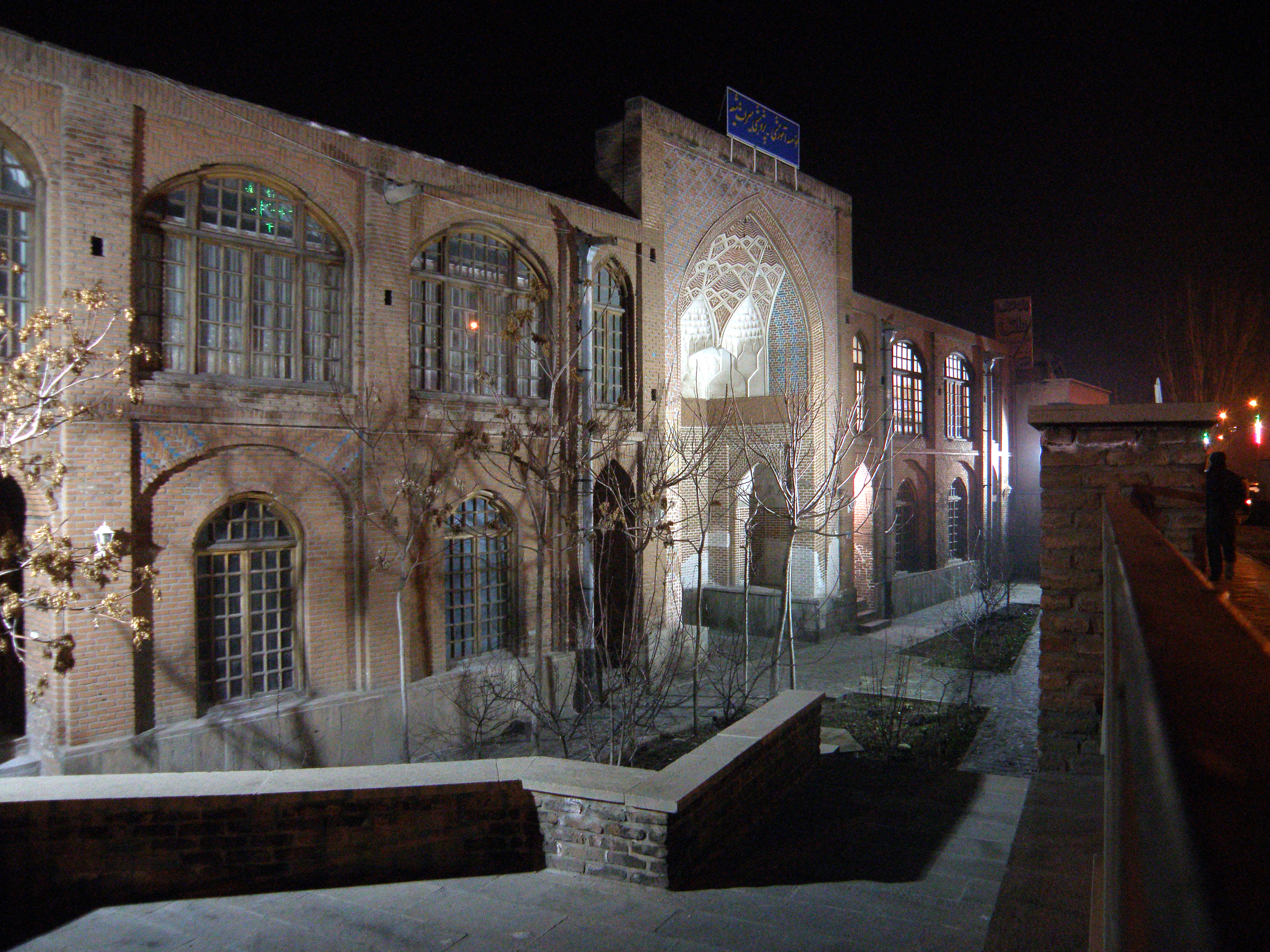 Akbariyye school in night, Tabriz, 2013.